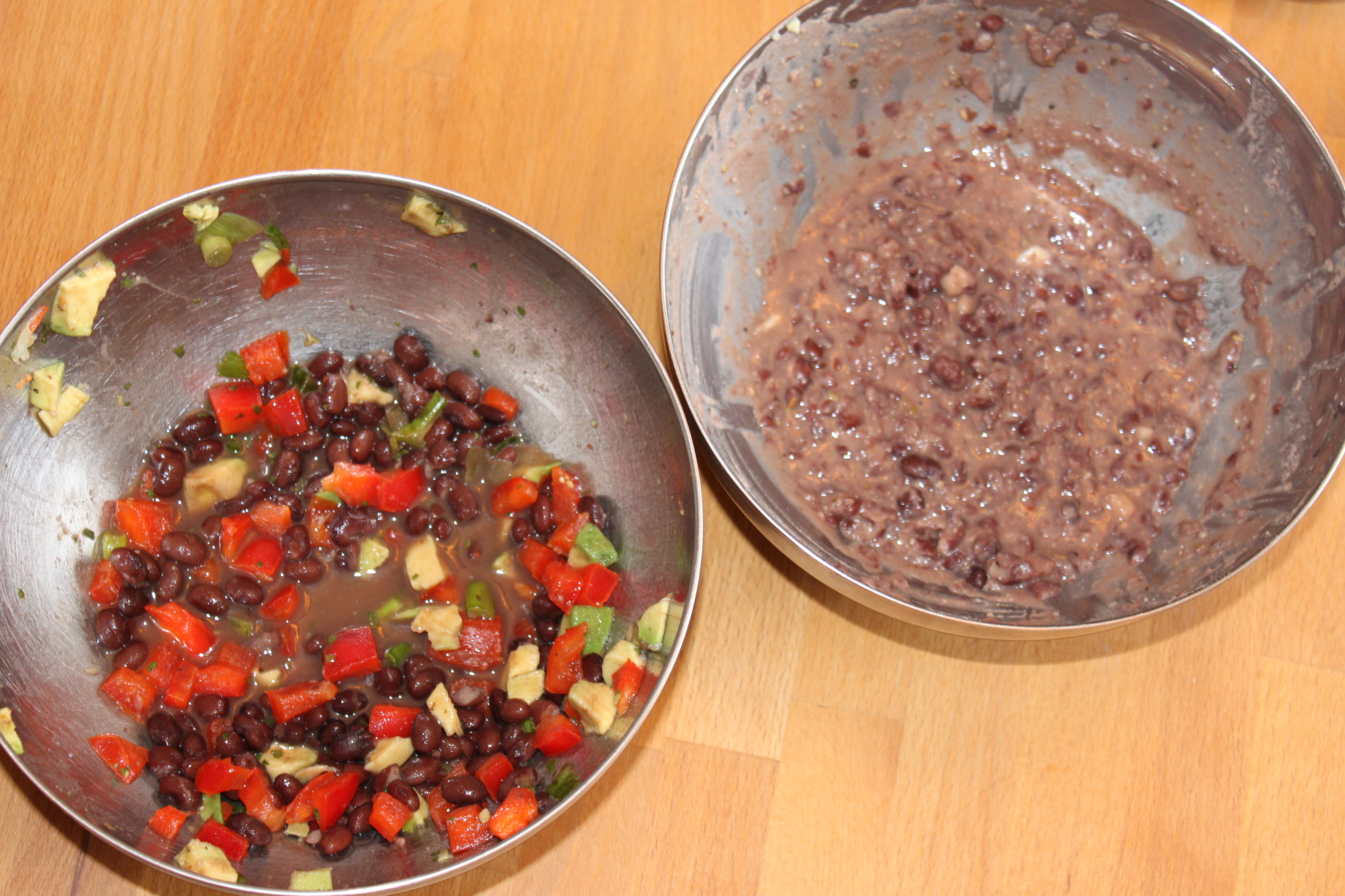 Kids Cook black bean salsa and smashed beans. Recipes at